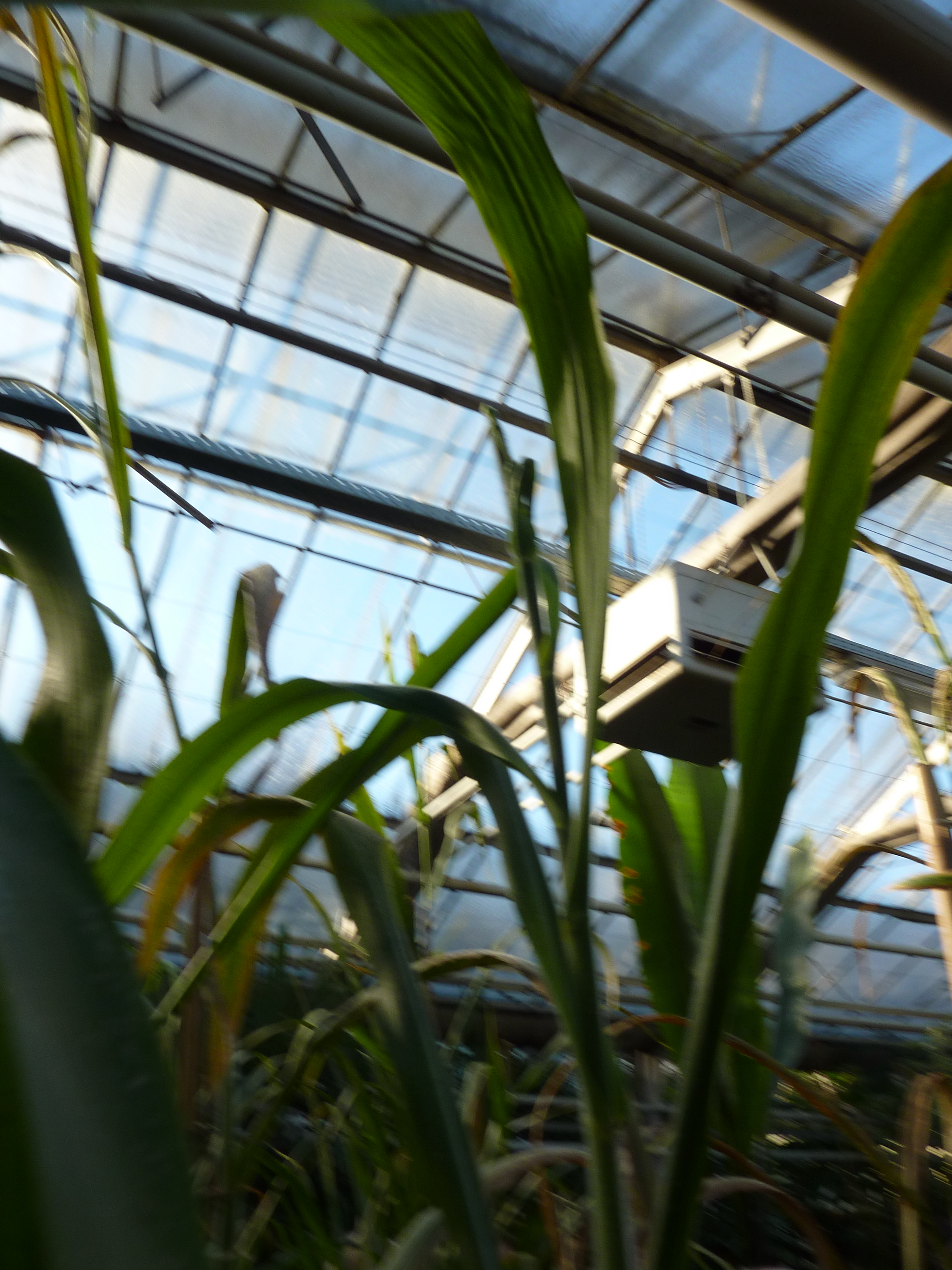 Pennisetum americanum (Pearl millet) growing in the greenhouse of the Deutsches Institut für tropische und subtropische Landwirtschaft, Witzenhausen, Germany